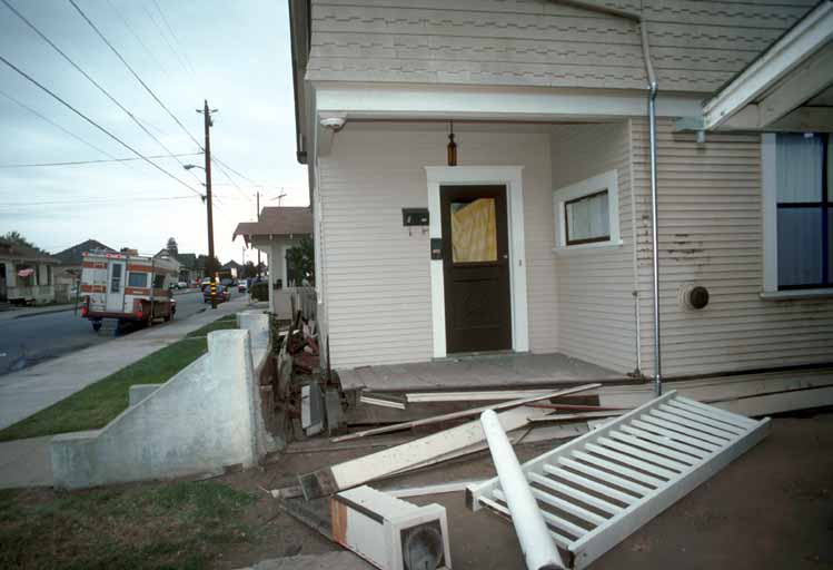 Original caption: Loma Prieta, California, Earthquake October 17, 1989. Watsonville area. This house was dislodged and moved 0.75 meter (2.5 feet) from the cement stairway in downtown Watsonville. Slide XIV-10, U.S. Geological Survey Open- File Report 90-547. Comments: Image shows low cripple wall collapse and detachment of structure from concrete stairway. Note that the building has moved diagonally, a typical motion when all four shear walls of a structure collapse. For this to occur the usual failure mode is for the corners to disassemble, and good design or retrofitting pays special attention to the corners of such structures.